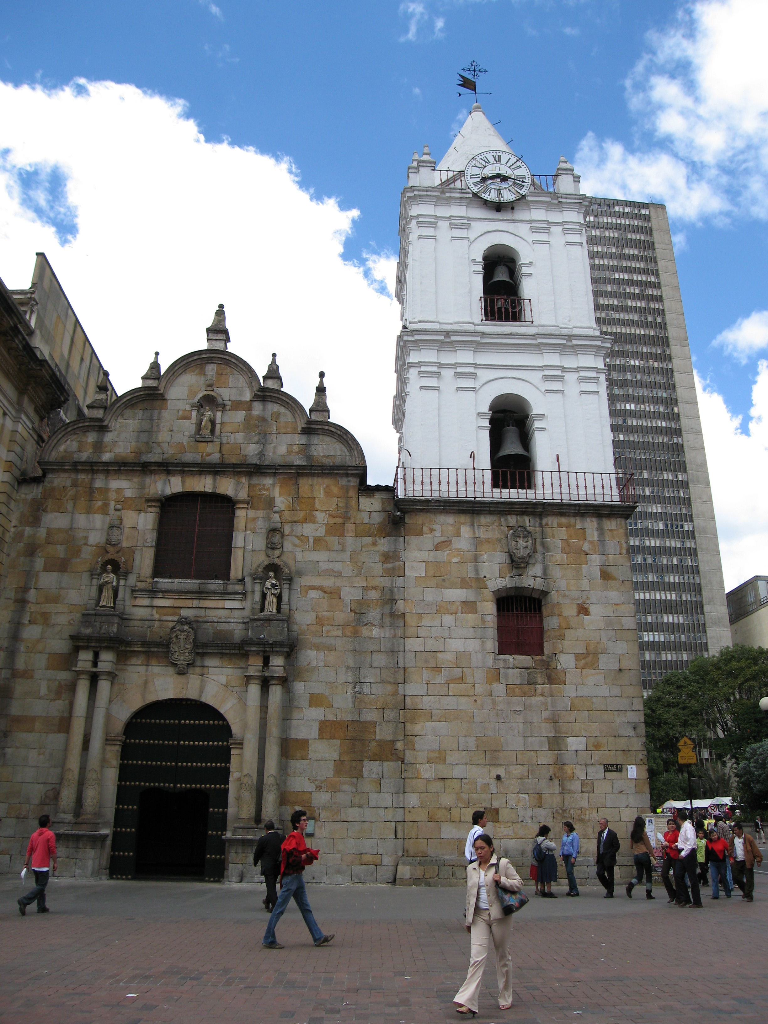 Iglesia de San Francisco (I,the creator of this work, hereby grant the permission to copy, distribute and/or modify this document under the terms of the GNU Free Documentation License, Version 1.2 or any later version published by the Free Software Foundation; with no Invariant Sections, no Front-Cover Texts, and no Back-Cover Texts.)